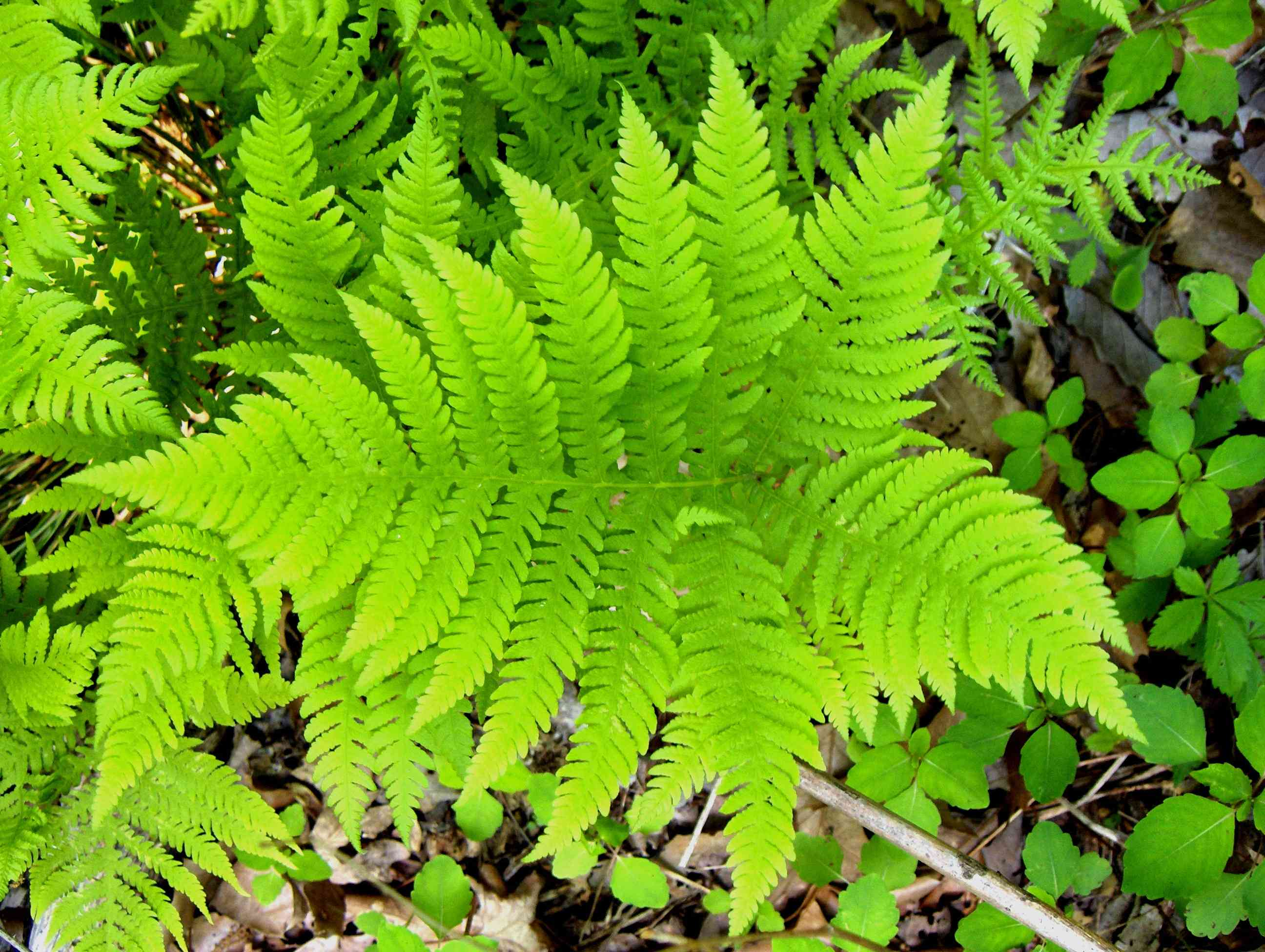 photo by John Knouse, May 2005